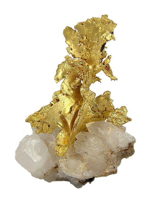 Gold, Quartz Locality: Roşia Montanã (Verespatak; Vöröspatak; Goldbach), Alba County, Romania (Locality at ) Size: miniature, 4.3 x 2.7 x 1.3 cm Gold on Quartz This piece has to be one of the most aesthetic golds I have ever seen for sale from the old deposits here. It feaures an arborescent cluster of thick gold crystals leaping off contrasting TERMINATED quartz matrix. The gold is sturdy itself, and strongly embedded in the quartz as well. This incredibly aesthetic specimen has a long history! It was in the collection of the Austrian Museum of Vienna, until traded out and sold to collector Al Partee in the 1980s. When Al sold his his best miniature competition pieces, it went from him through Steve Neely to Irv Brown's miniature collection. I got it from Irv sometime in the late 1990s and traded it to Cal Graeber. Cal sold it to Mark when Mark was a curator up in Canada. Mark moved to Houston a couple of years ago. Mark brought it to lunch here in Dallas in July, and voila, its back with me again! I recognized it immediately. And, as a bonus, its now on the front cover of an important book on the mineralogy of Transylvania and these historic deposits.